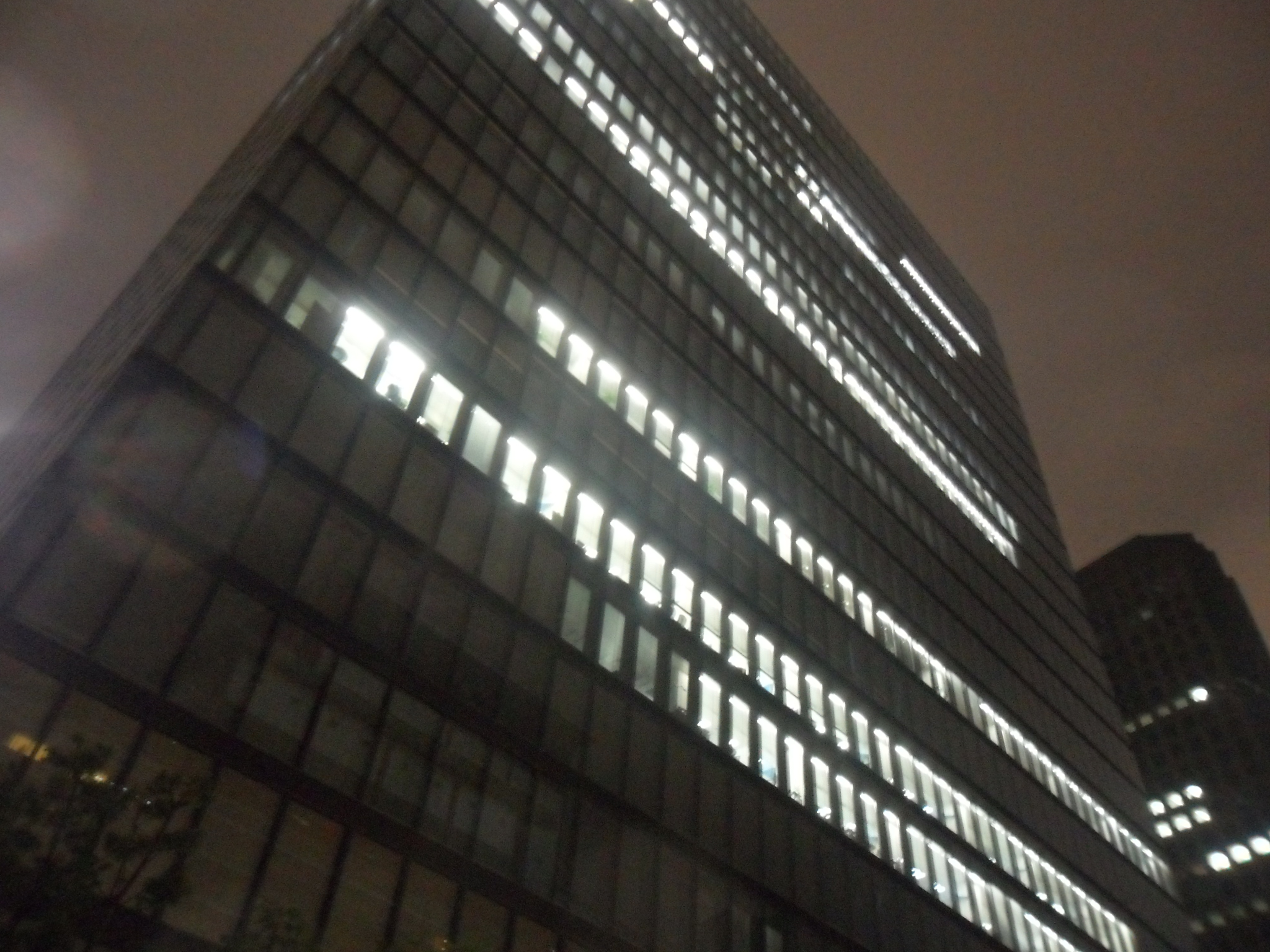 Torano'mon Tower's Office Building in Night.